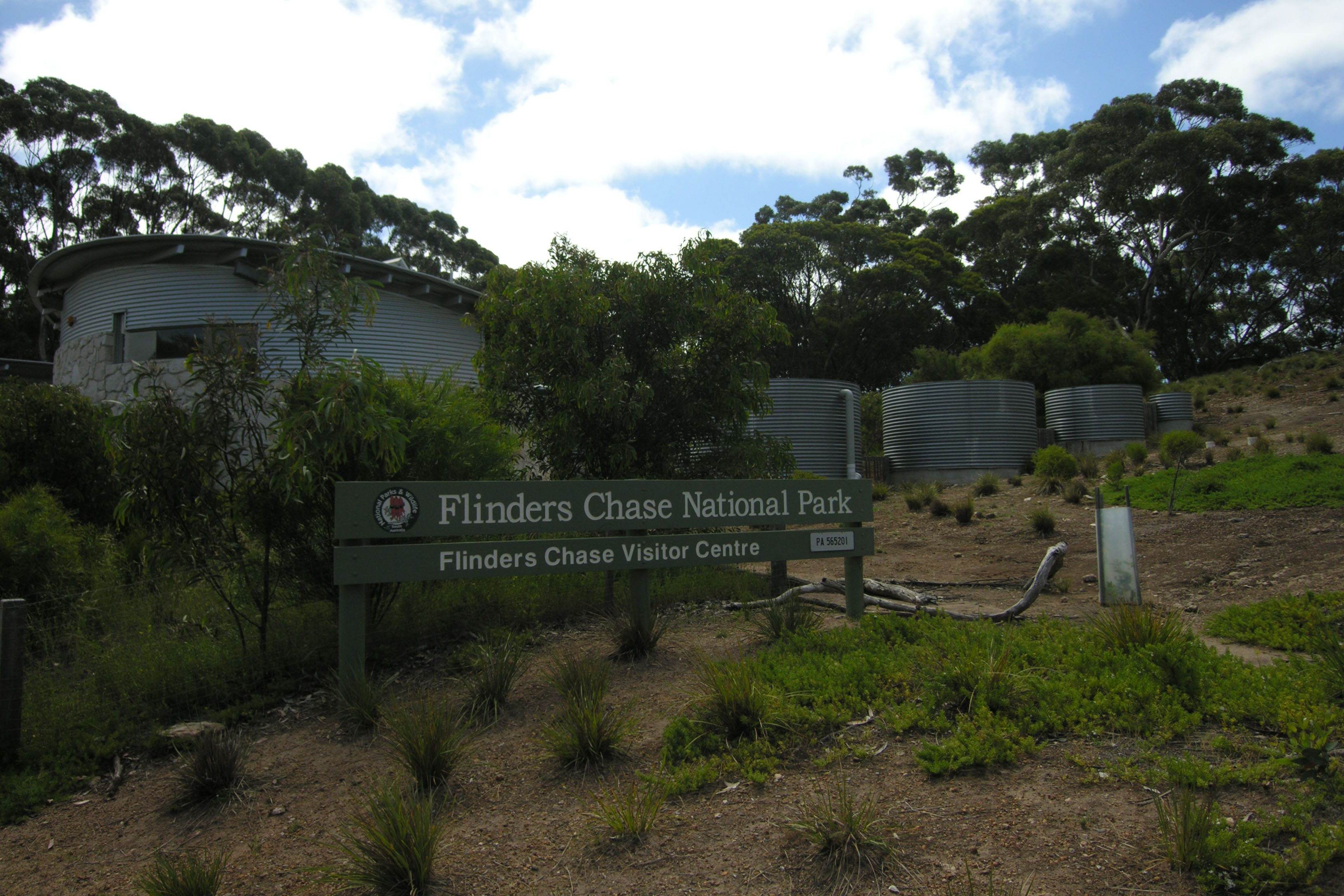 The banner near Flinders Chase Visitor Centre